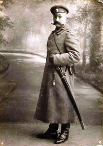 Officer of armies of Russian Empire and Lithuania Sergey Fanstill (1884-1947)